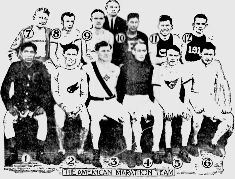 The American marathon team 1912, 1. Lewis Tewanima, 2. Strobino, 3. Joseph Erxleben, 4. Joseph Forshaw, 5. Clarence H. De Mar, 6. Harry Smith, 7. Richard F. Piggott, 8. Thomas H. Lilley, 9. John J. Reynolds, 10. Andrew Sockalexis, 11. Michael J. Ryan, 12. John J. Gallagher Jr. George Brown in the back.